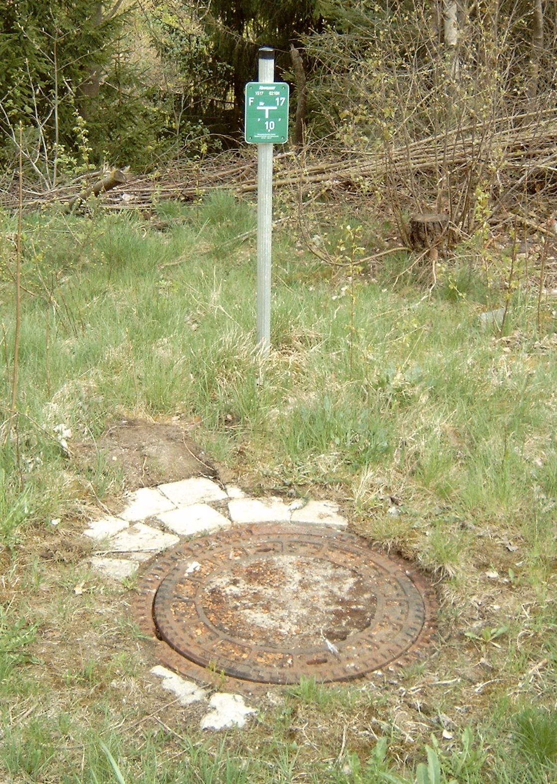 "Okertalsperre", sewage pipeline bypassing the reservoir, manhole between dam and village "Romkerhalle"